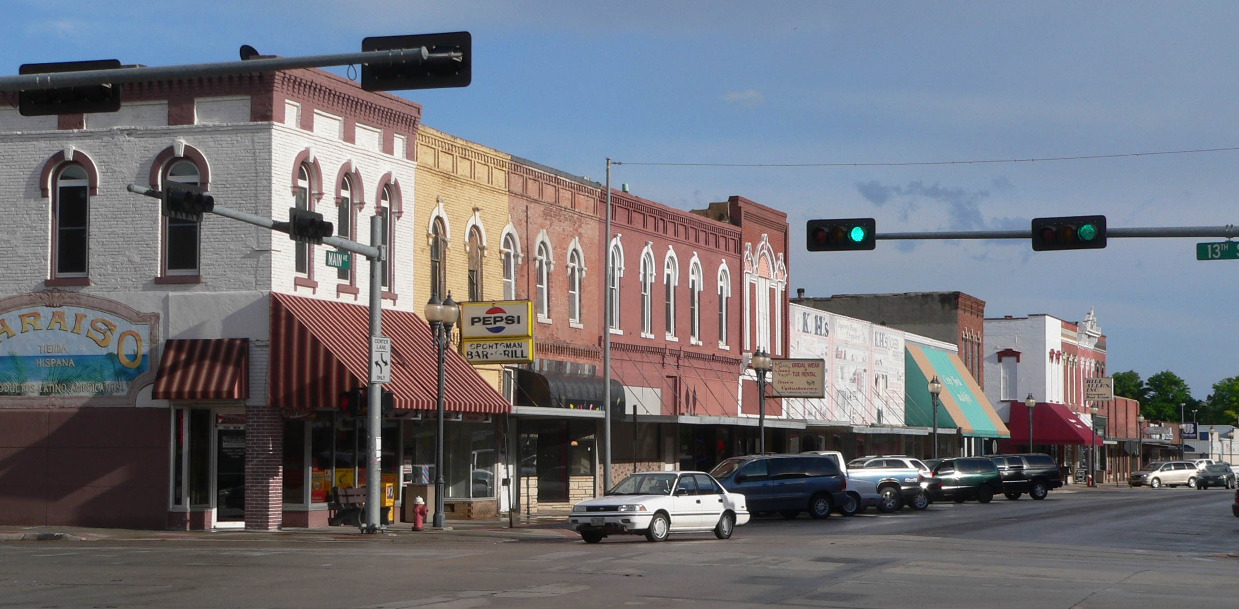 Crete, Nebraska: east side of Main Avenue, looking southeast from about 13th Street.